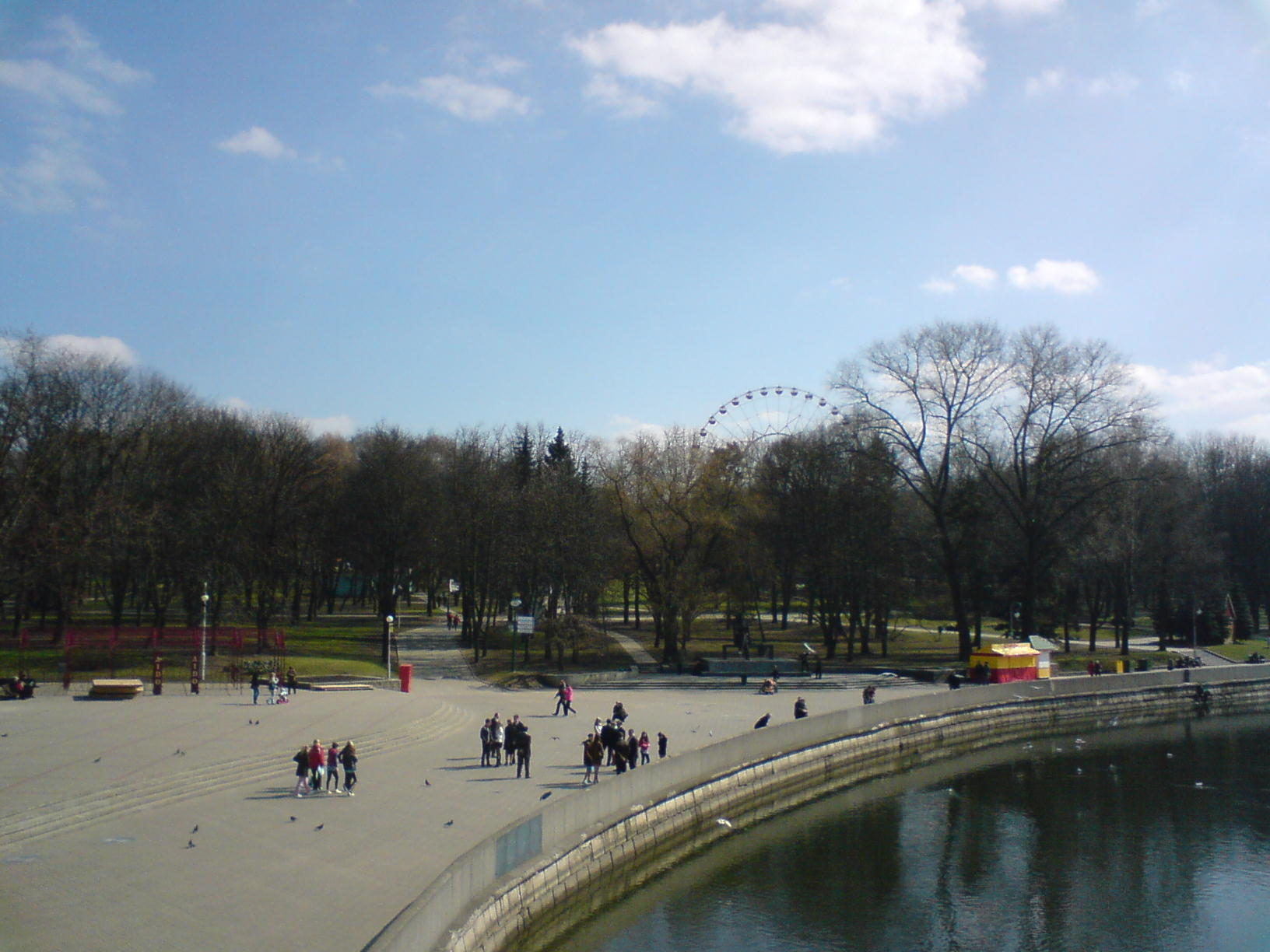 Ferris wheel in Minsk